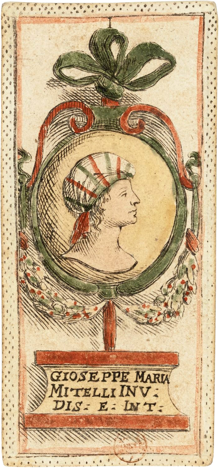 In the Tarocchino bolognese created by Giuseppe Maria Mitelli around 1660, the artist put his self portrait on the Ace of Coins, and to affirm the originality of his work he added: INV. DIS. and INT: ("Invented, Drafted and Engraved"). Аҧсшәа: Nel Tarocchino bolognese creato da Giuseppe Maria Mitelli verso il 1660, l'artista pose il proprio ritratto sull'Asso di Denari, e per affermare l'originalità dell'opera aggiunse INV. DIS. e INT: ("Inventò, Disegnò e Incise"). Acèh: Dans le Tarot bolognaise créé par Giuseppe Maria Mitelli vers 1660, l'artiste a mis son propre portrait sur l'As de Deniers et pour affirmer l'originalité de son travail il a ajouté INV. DIS. et INT: ("inventé, dessiné et gravé"). Qafár af: En el boloñés de Tarocchino creado por Giuseppe Maria Mitelli alrededor de 1660, el artista puso su propio retrato en el 1 de Oros, y para afirmar la originalidad de su trabajo agregó INV. DIS. e INT: ("Inventado, dibujado y grabado").